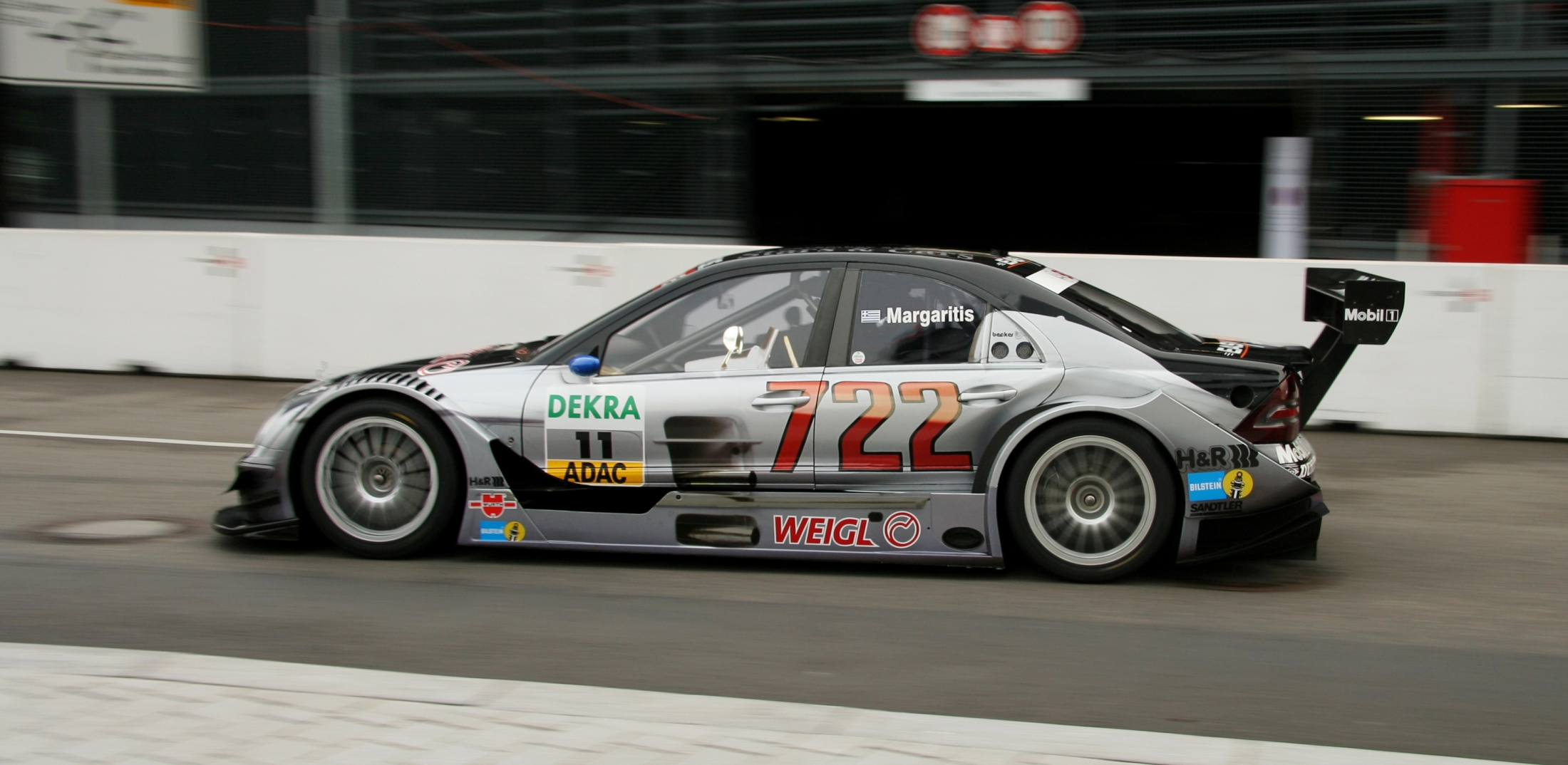 DTM car Mercedes-Benz 2006 (C-Class, W203), Alexandros Margaritis (driver)